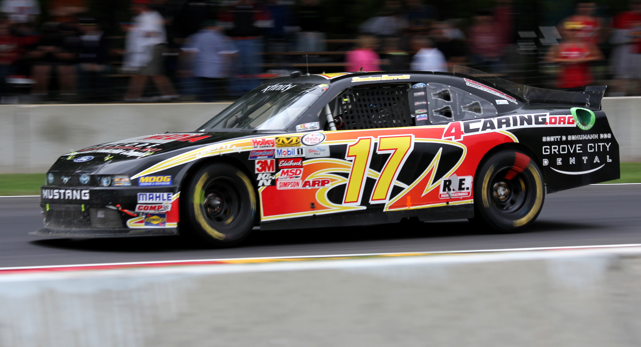 The NASCAR Xfinity Series car of Stanton Barrett turning left in Turn 6 at Road America.